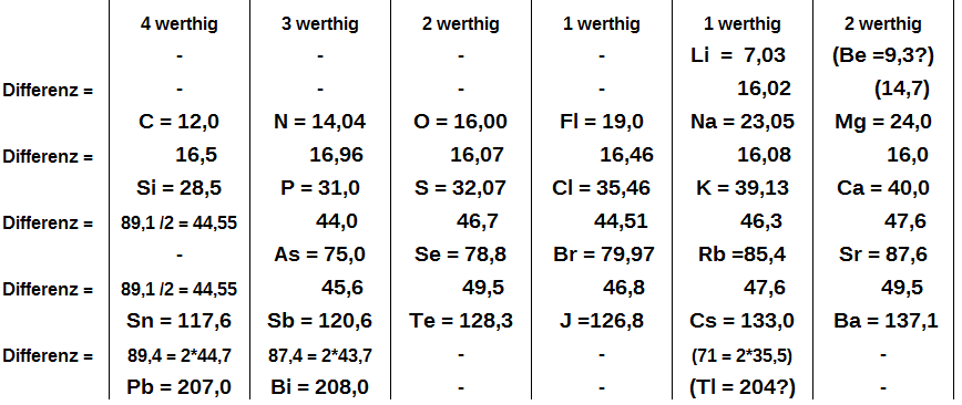 Copy of table on page 137 of (Julius) Lothar Meyer: "Die modernen Theorien der Chemie" (1864)